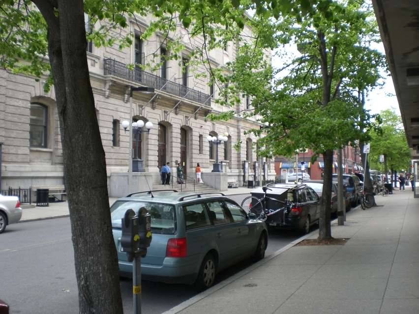 Jordan Hall Building at New England Conservatory, Boston.